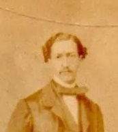 Juan Lamamié de Clairac y Trespalacios